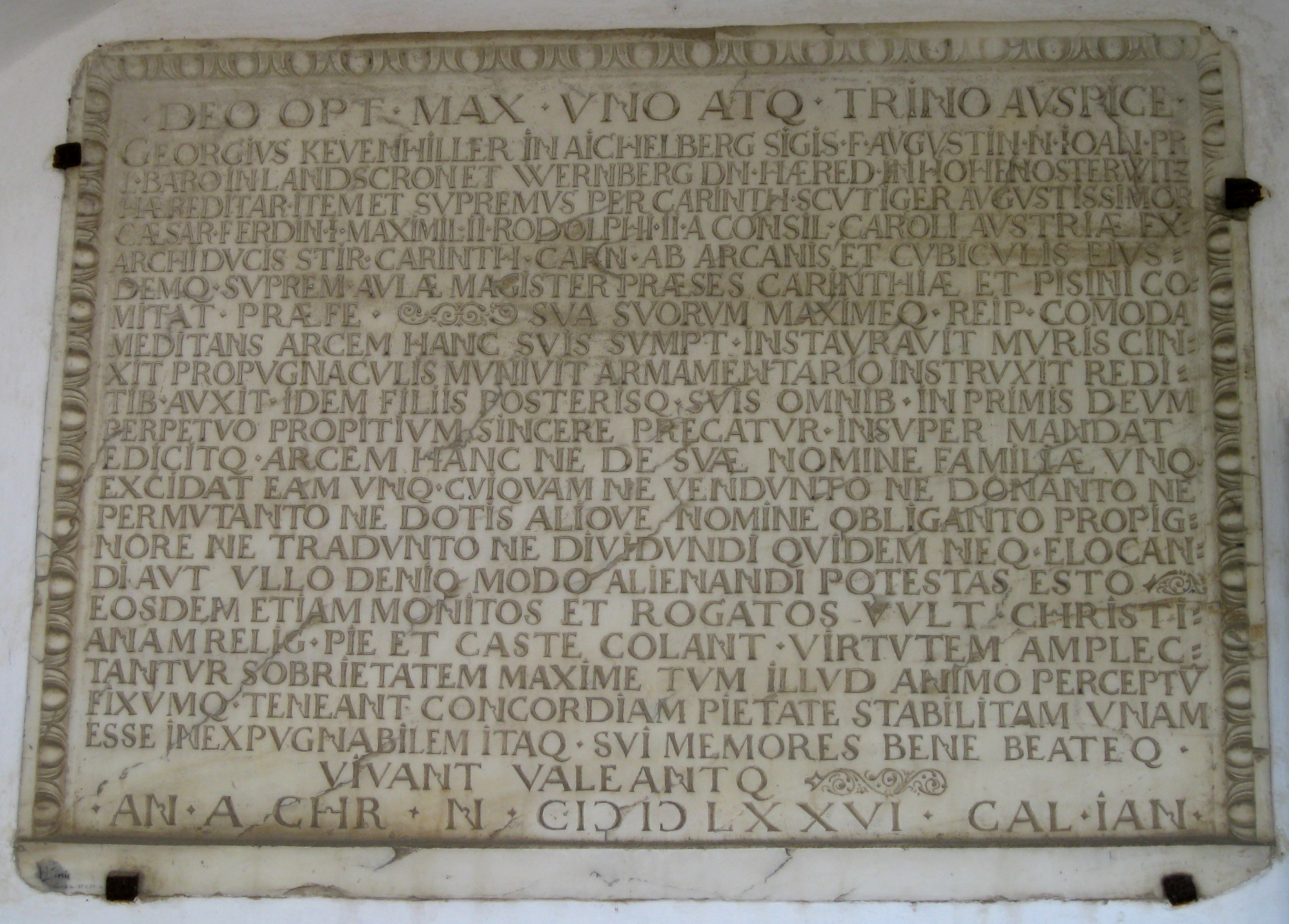 Hochosterwitz castle (slovenian: grad Ostrovica), castle in Carinthia state, Austria: marble tablet with the last will and testament of Georg von Khevenhüller, in which he specified that Hochosterwitz castle must always remain in possession of the Khevenhüller family